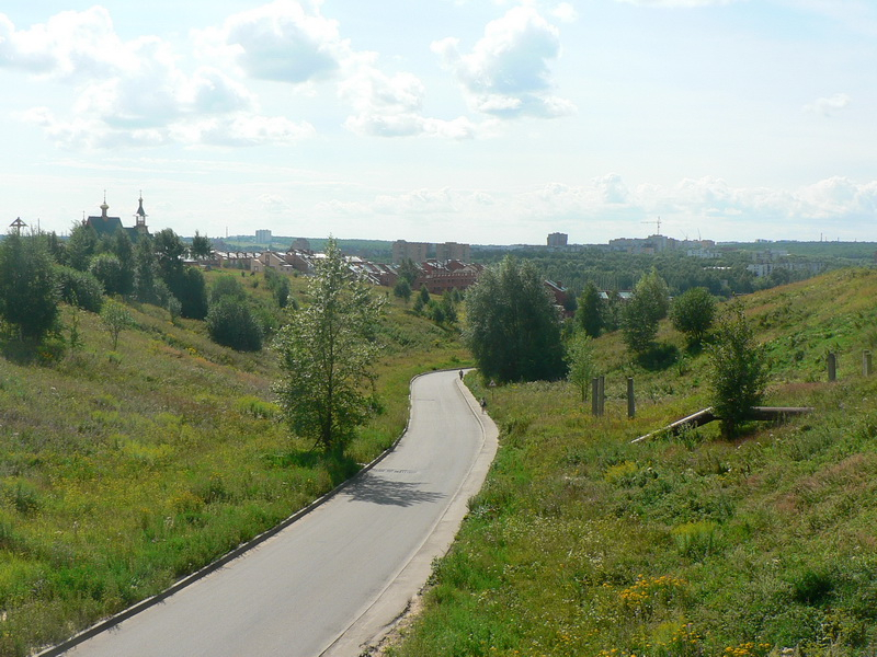 The general view of Kasyanov ravine in Verkhniye Pechory of Nizhny Novgorod city